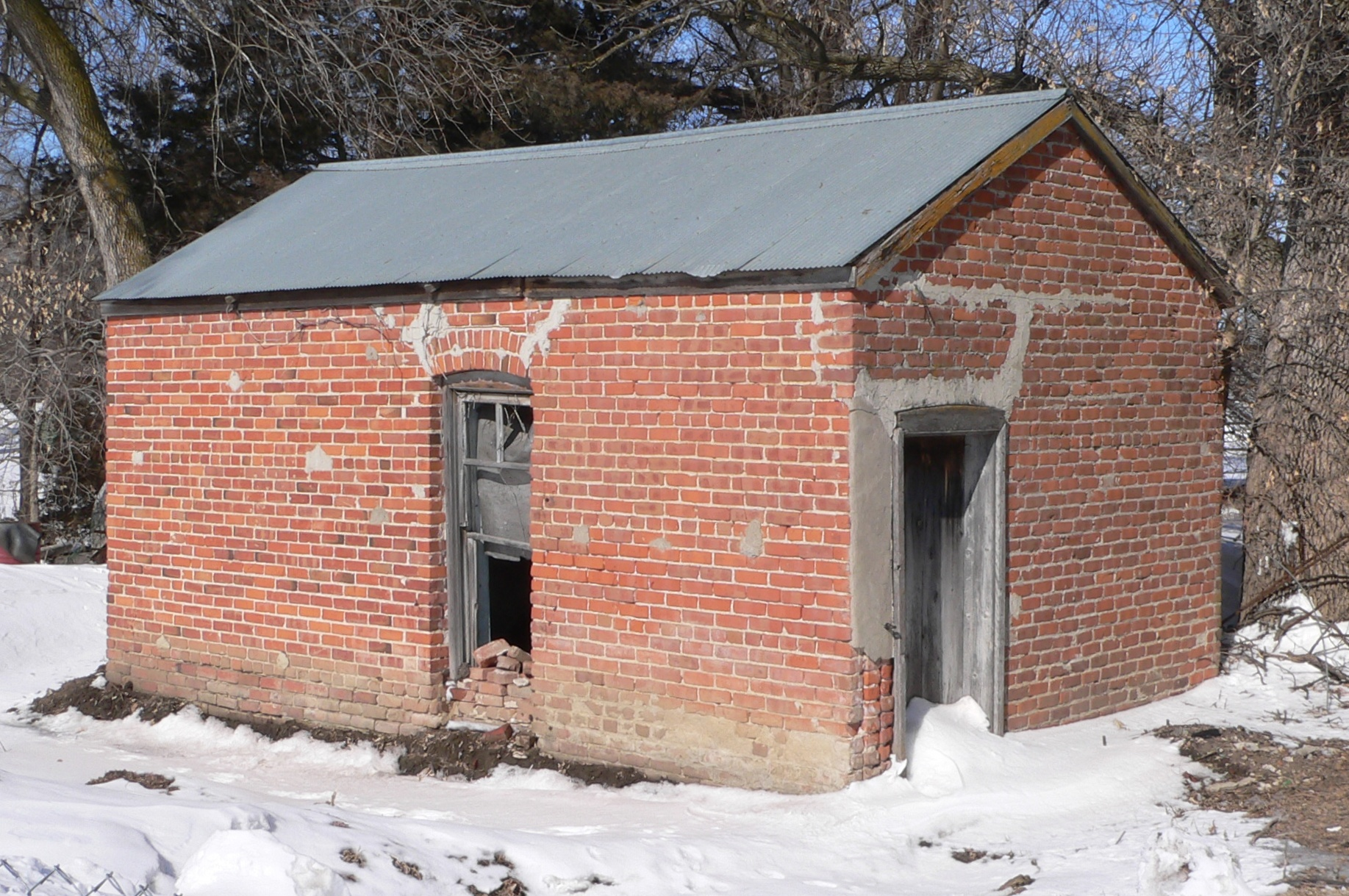 Petersburg Jail in Petersburg, Nebraska; seen from the southeast. The building was constructed in 1902, and is listed in the National Register of Historic Places.